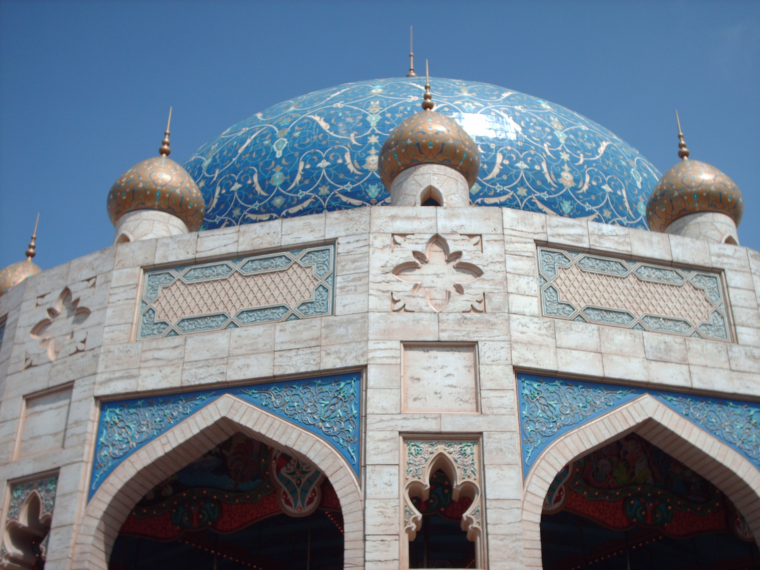 A double-decker carousel is housed inside this enormous reproduction of the Taj Mahal at Tokyo DisneySea, Japan